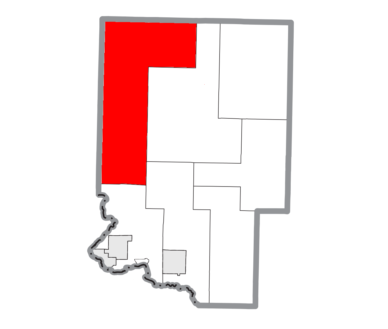 Sagola Township, MI